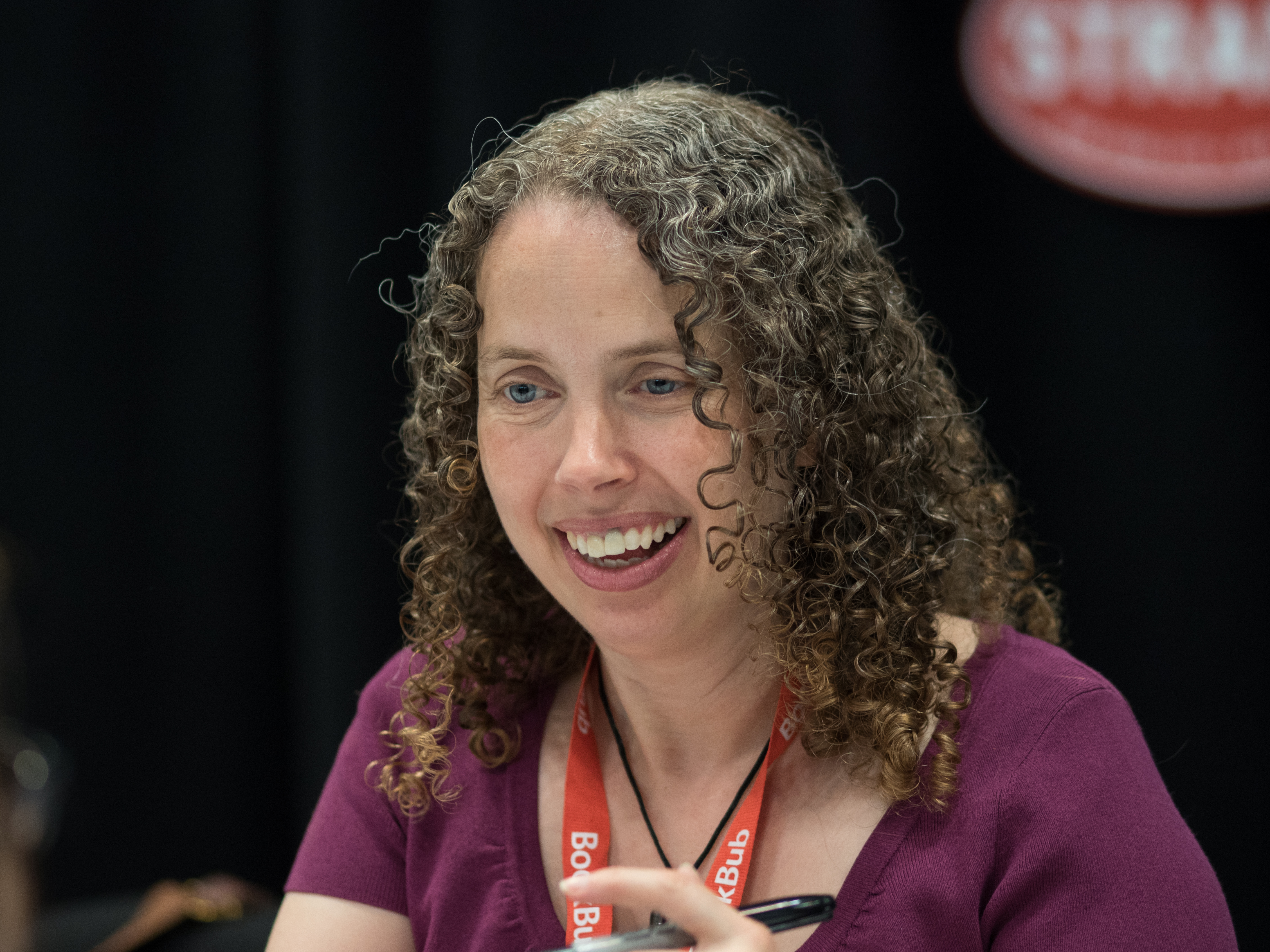 Sarah Beth Durst BookCon 2018 at the Javits Convention Center in New York City.